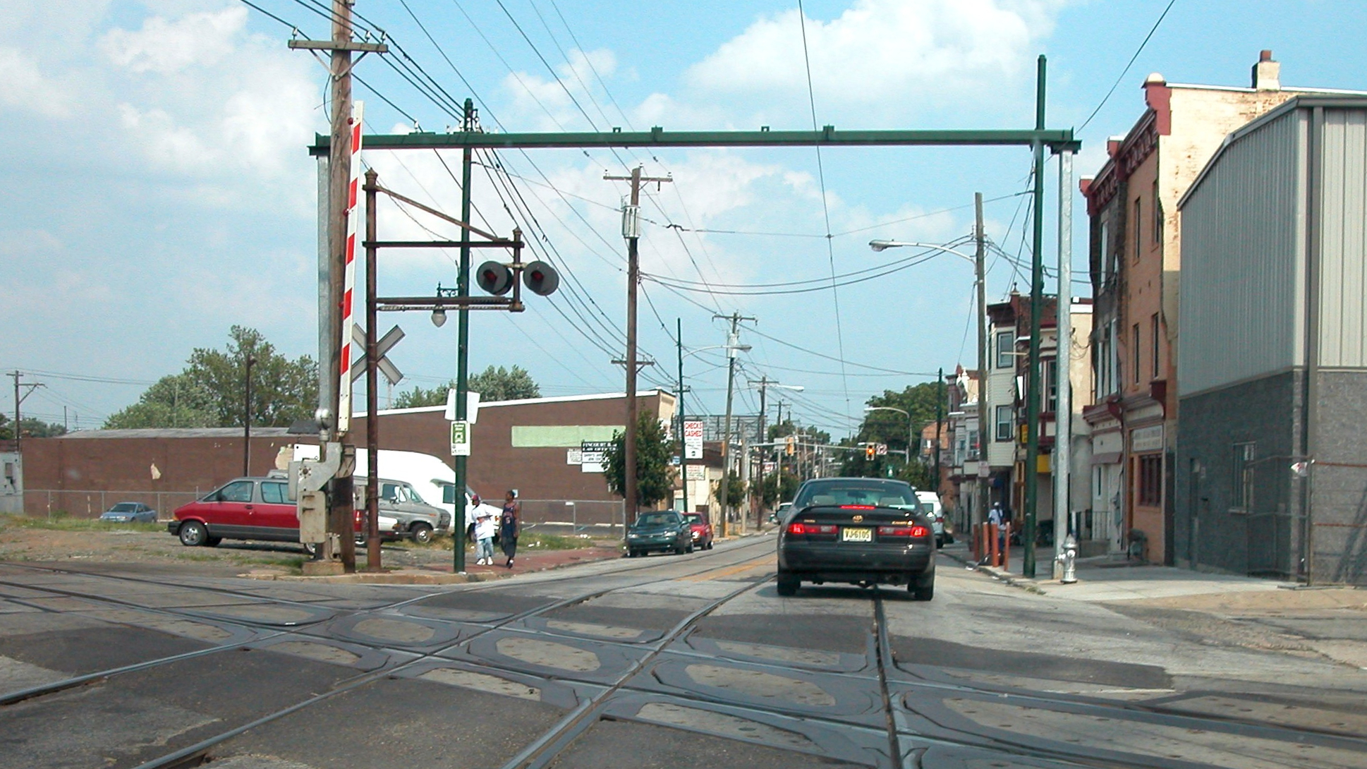 Main Street in Darby, Pennsylvania, along the SEPTA Route 11 trolley line, crossing the CSX Philadelphia Subdivision at 6th Street.